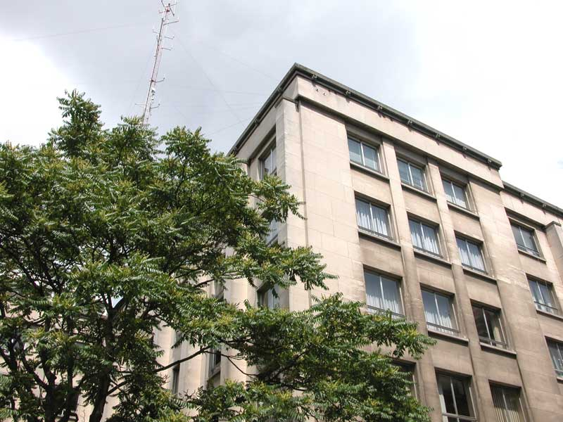 The former Statistics Belgium building.